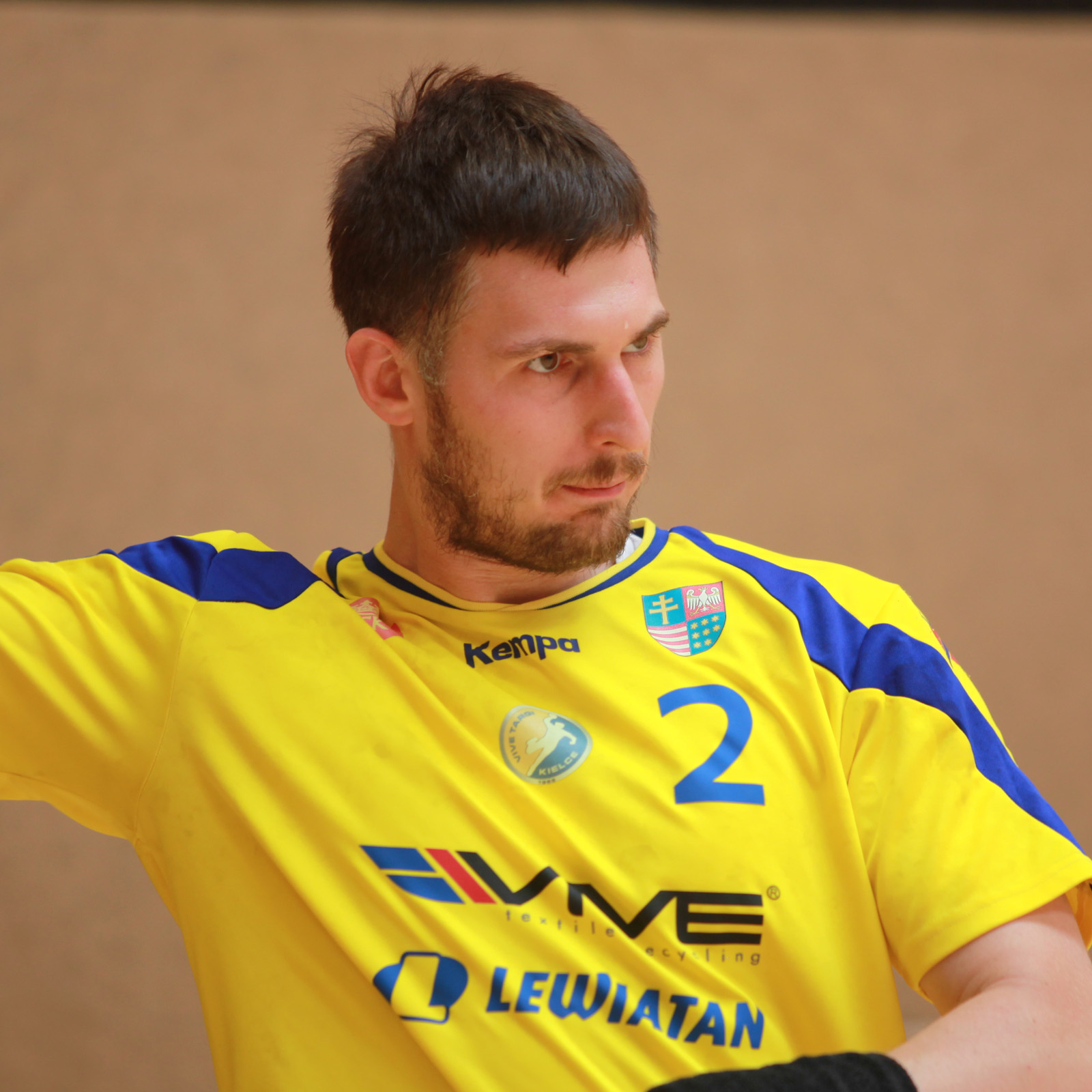 Piotr Grabarczyk, on August 17th, 2012 in Ehingen (Germany), during the Sparkassen Cup (formerly known as Schlecker Cup).